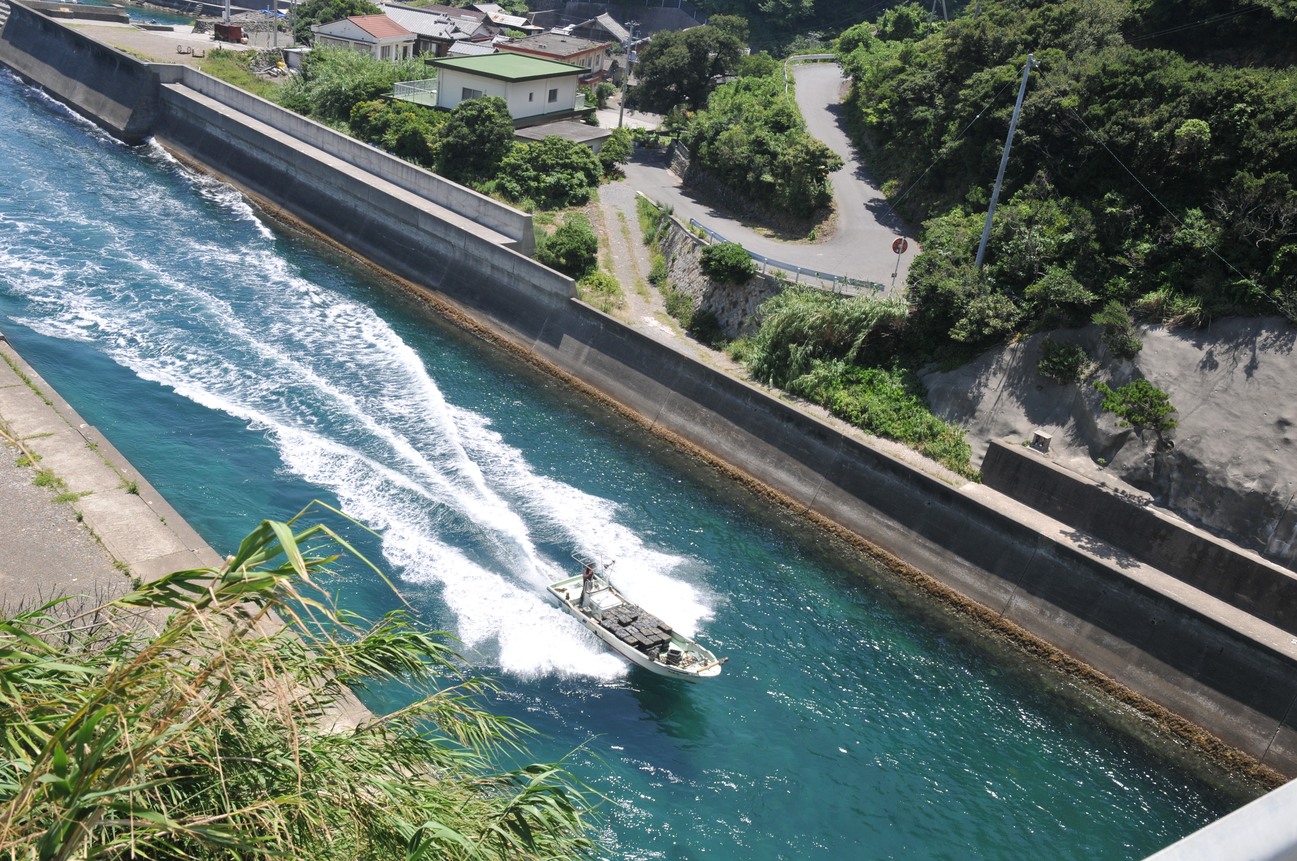 A fishing boat that passes through the canal